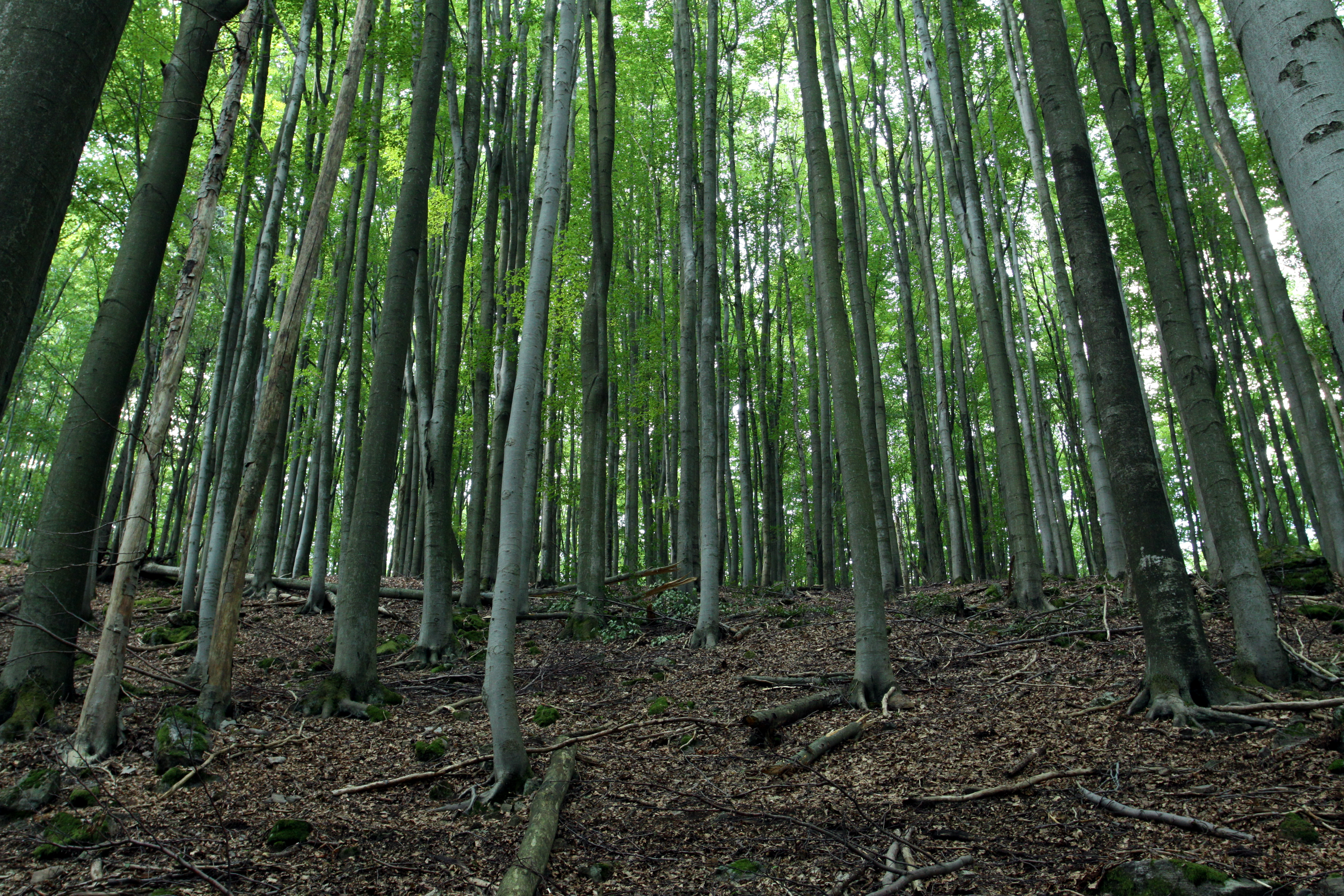 Nature reserce Malý Zvon near Bělá nad Radbuzou in Domažlice District, Czech Republic